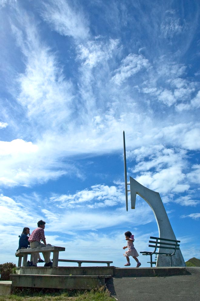 Symbol for the geographic centre of New Zealand, near Nelson (not the real geographic centre).